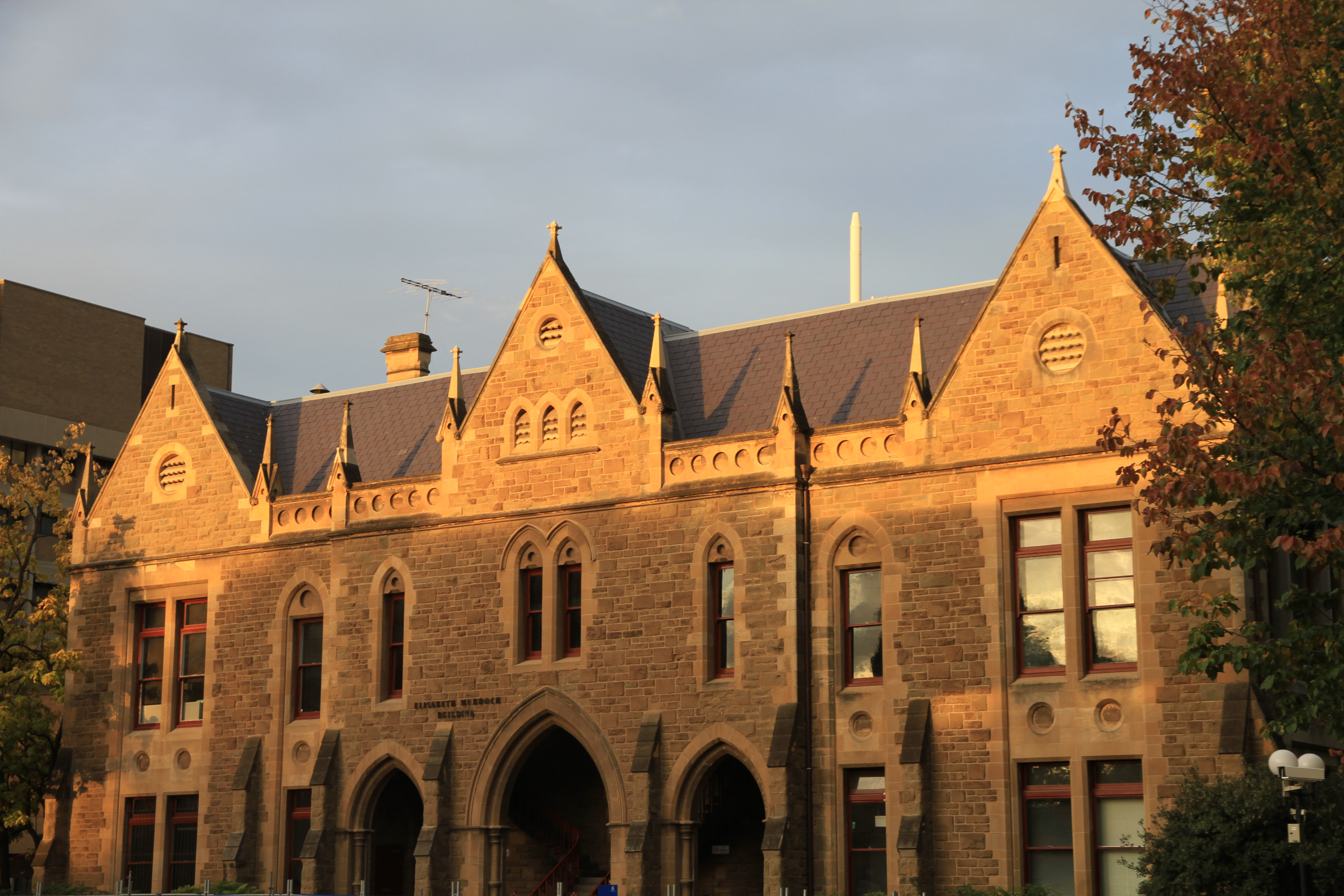 front facade